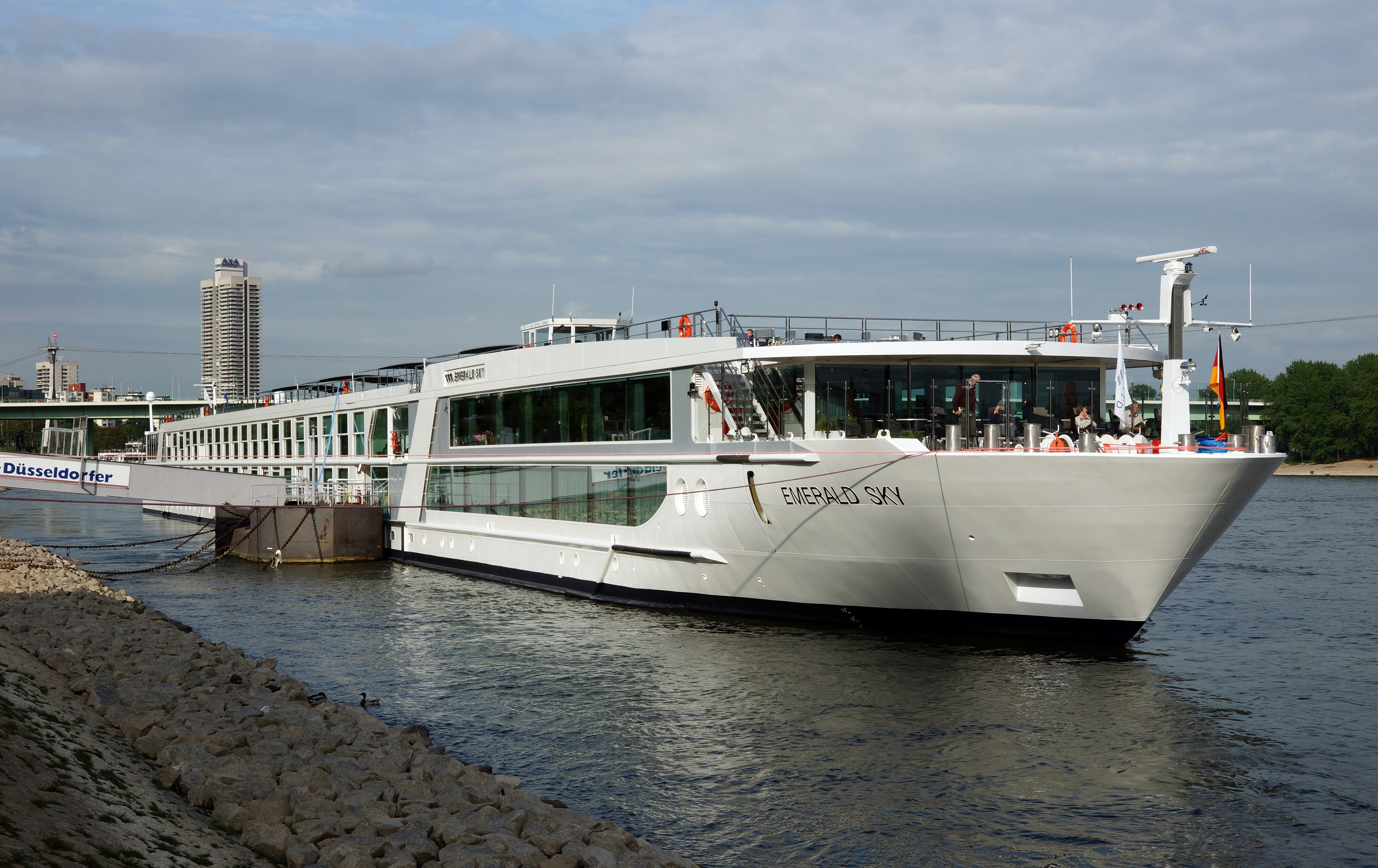 River cruise ship Emerald Sky in Cologne.